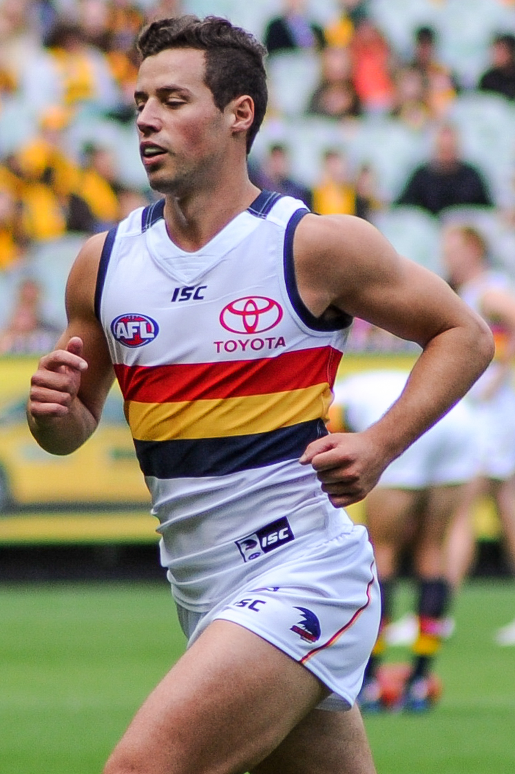 Luke Brown during the AFL round two match between Hawthorn and Adelaide on 1 April 2017 at the Melbourne Cricket Ground in Melbourne, Victoria.